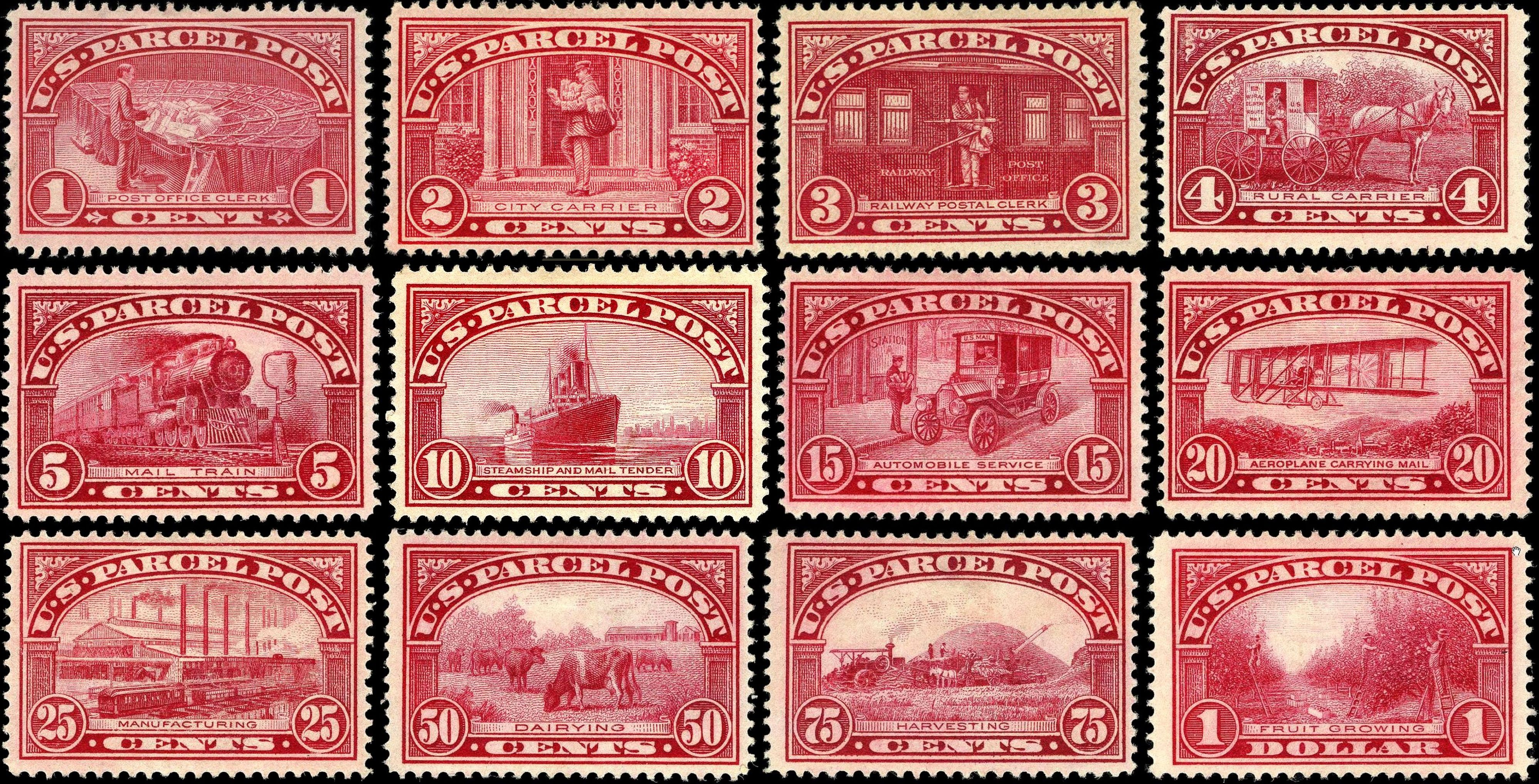 Composite photo of 12 U.S. Parcel Post stamps